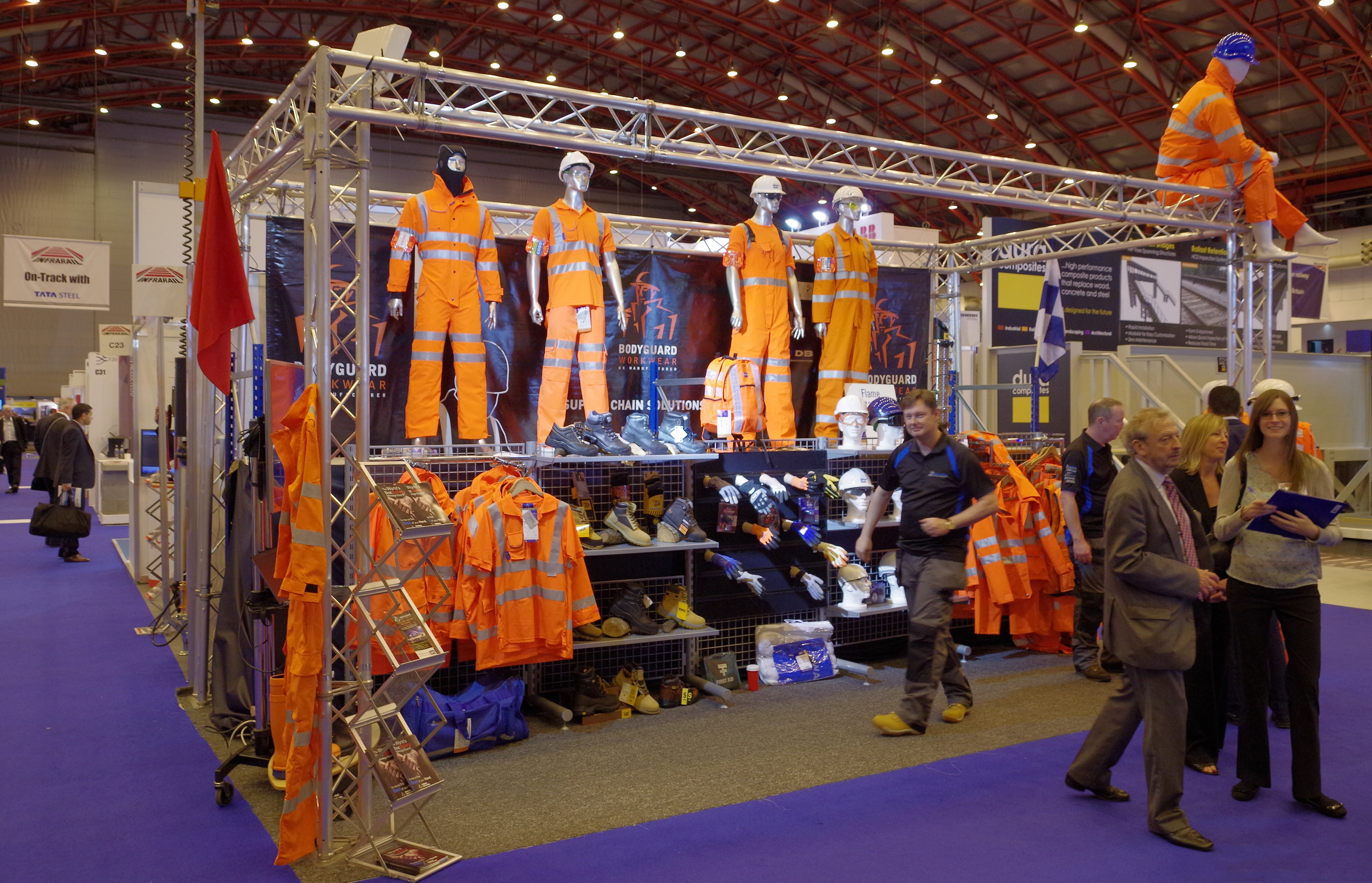 High-visibility clothing at InfraRail 2014.